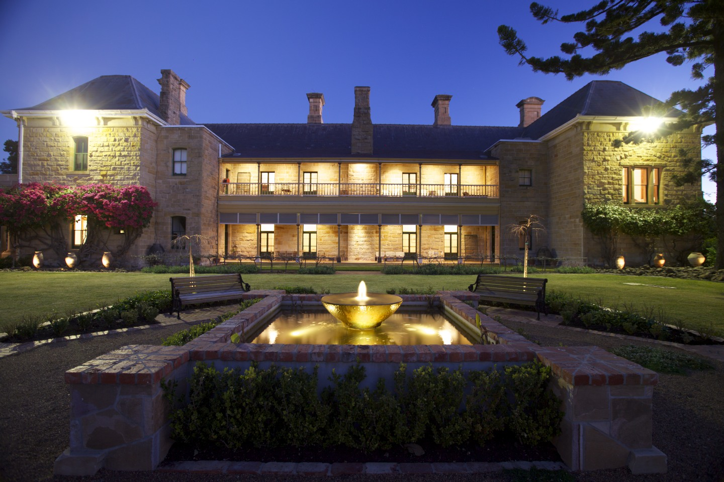 Jimbour is the main homestead on one of the earliest stations established on the Darling Downs, is important in demonstrating the pattern of early European exploration and pastoral settlement in Queensland, Australia.